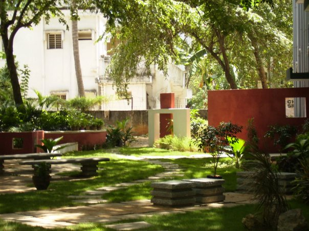 lady andal garden